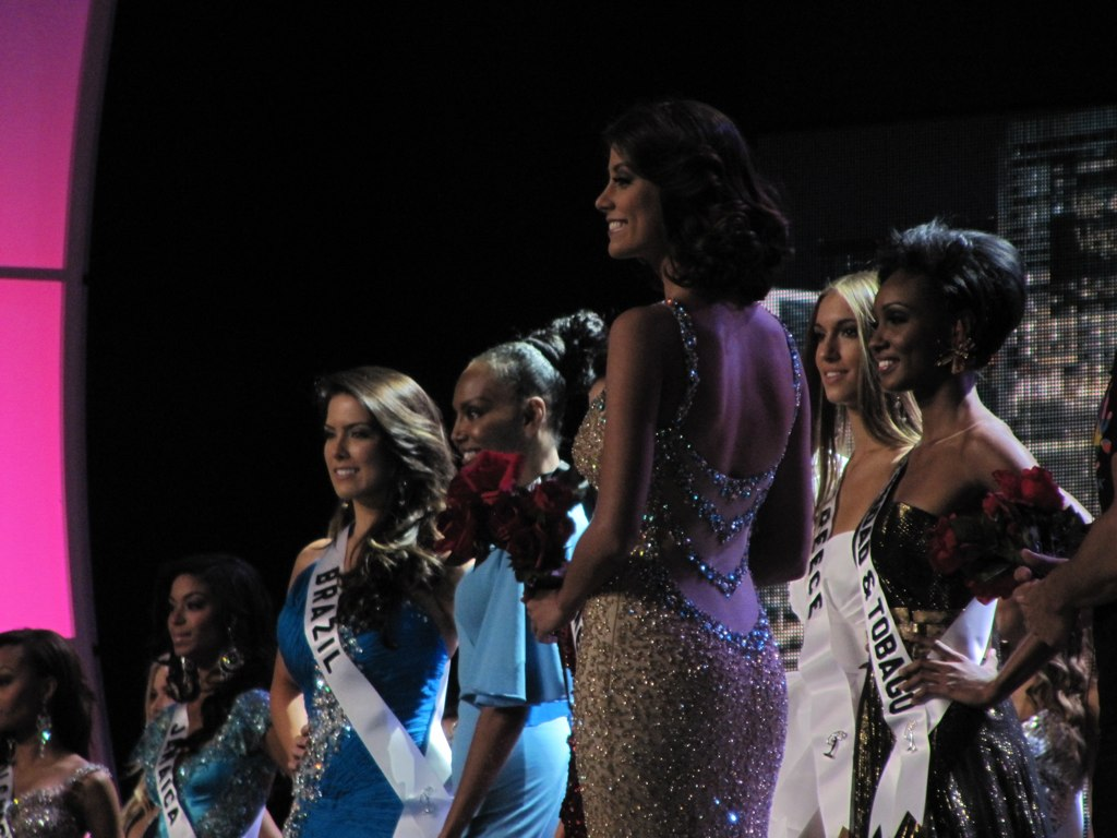 Miss Universe 2009 rehearses for the 2010 pageant and prepares to give up her crown